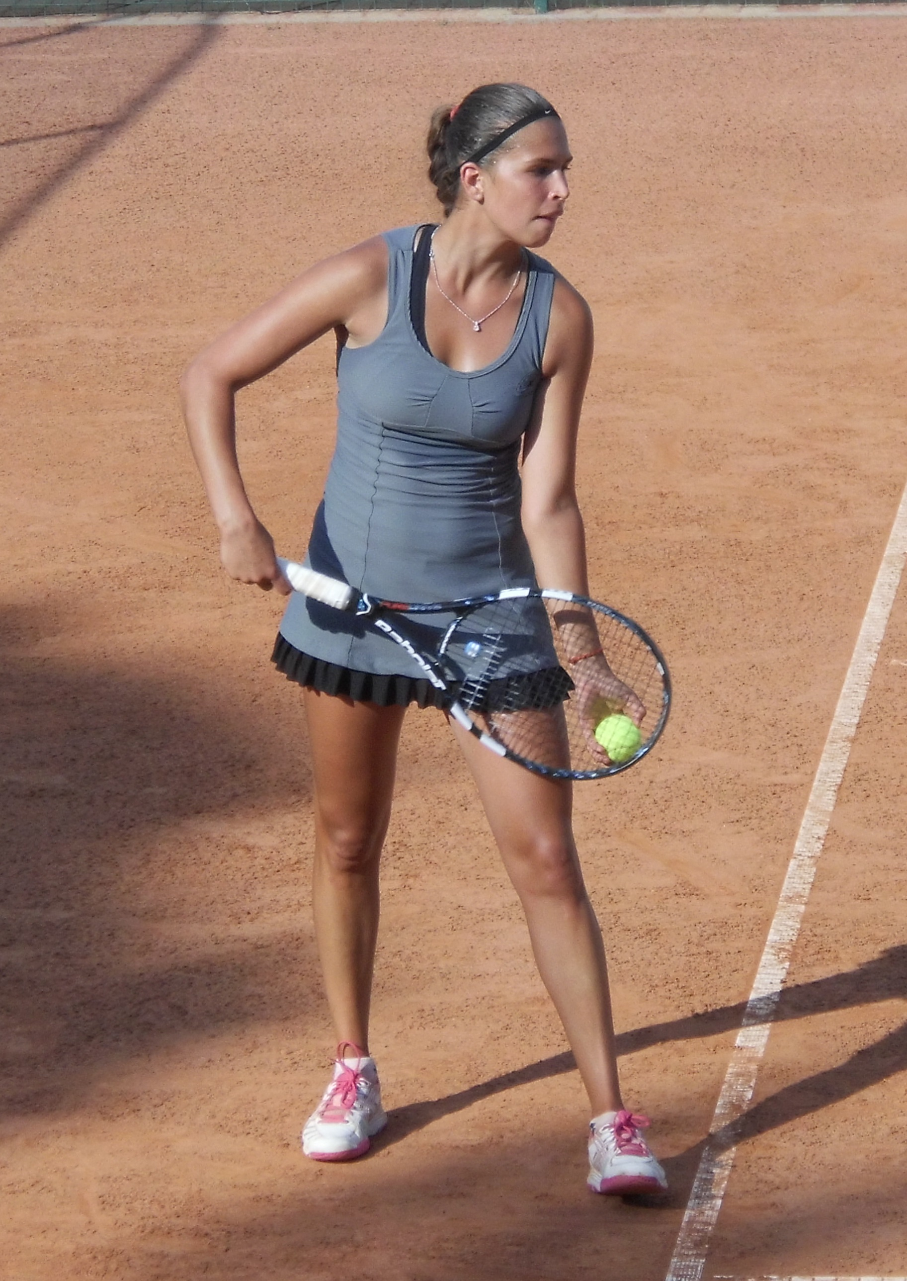 Chantal Škamlová during doubles final match at 2014 Bella Cup